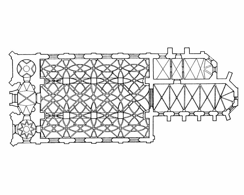 Ground plan of Monastery Church of the Nativity of Virgin Mary in Želiv by Jan Santini Aichel